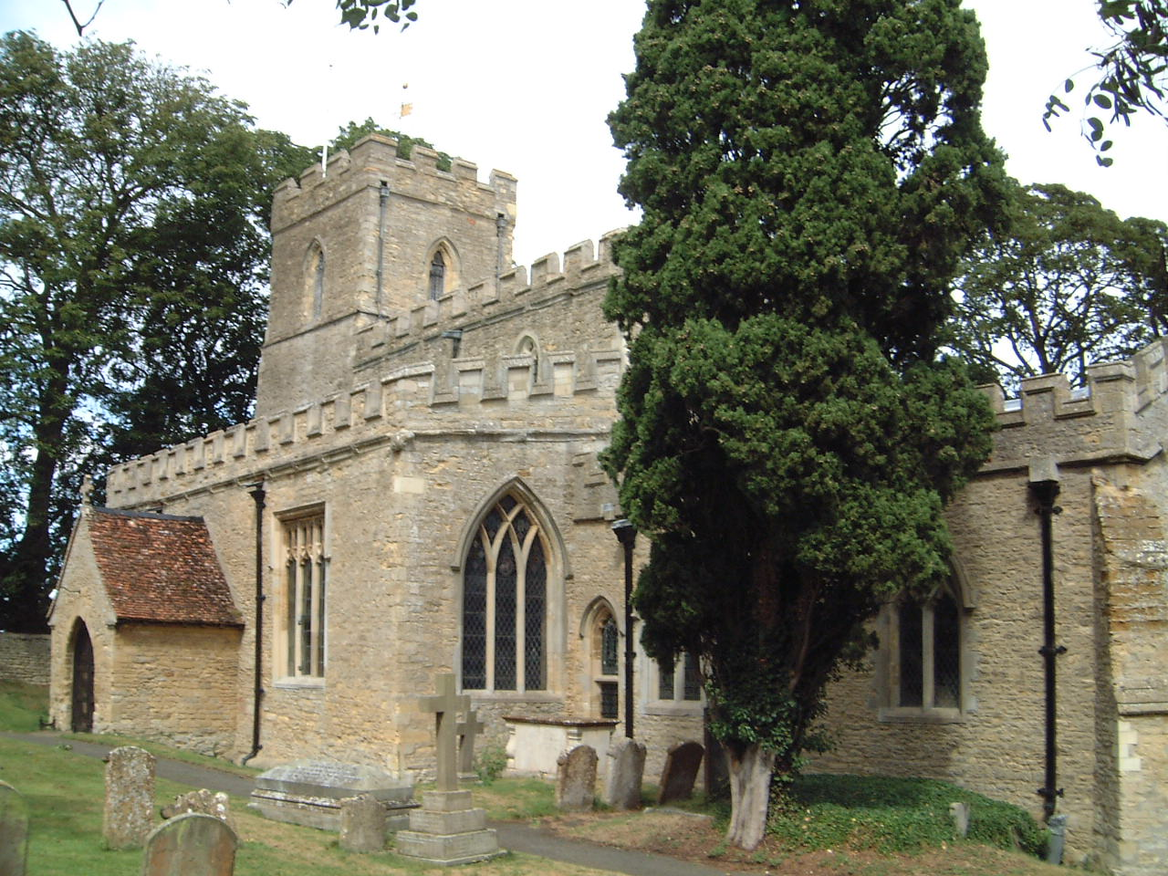 Photograph of the Church of St Mary at Clifton Reynes, Buckinghamshire. Taken ca. 2000.